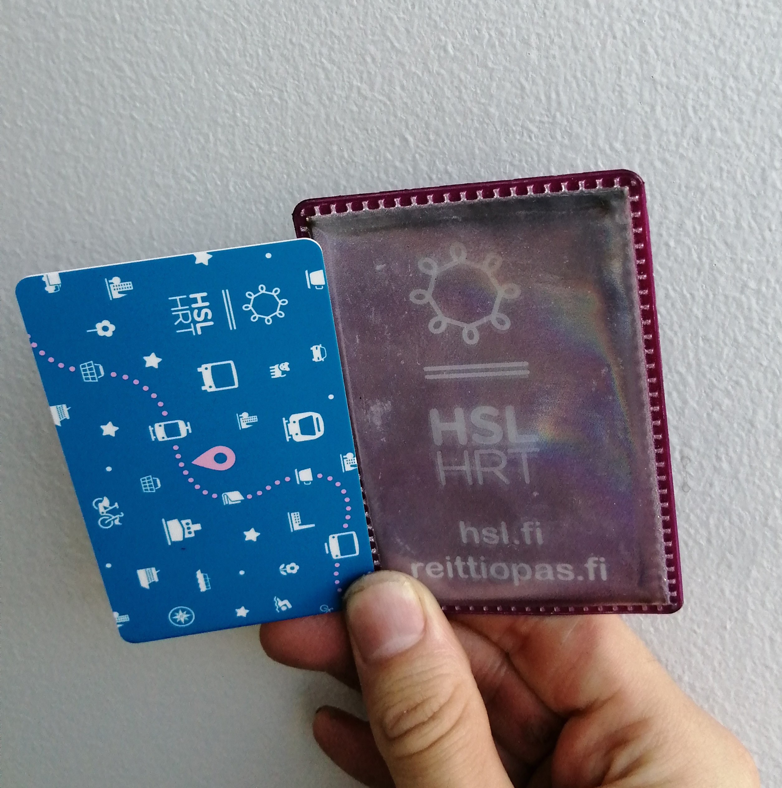 A HSL travel card in use since the travel zone revision in April 2019 alongside an official purple reflective sleeve